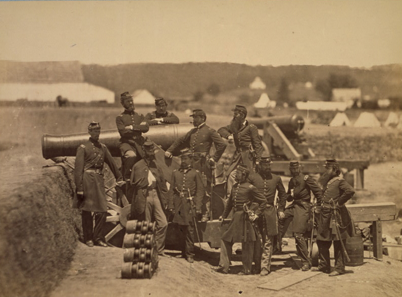 Officers of the 69th New York State Militia Regiment pose on a cannon at Fort Corcoran, Arlington, Virginia. (1861) U.S. Library of Congress Civil War Photograph Collection CALL NUMBER: LOT 4187 [item] [P&P] [1]